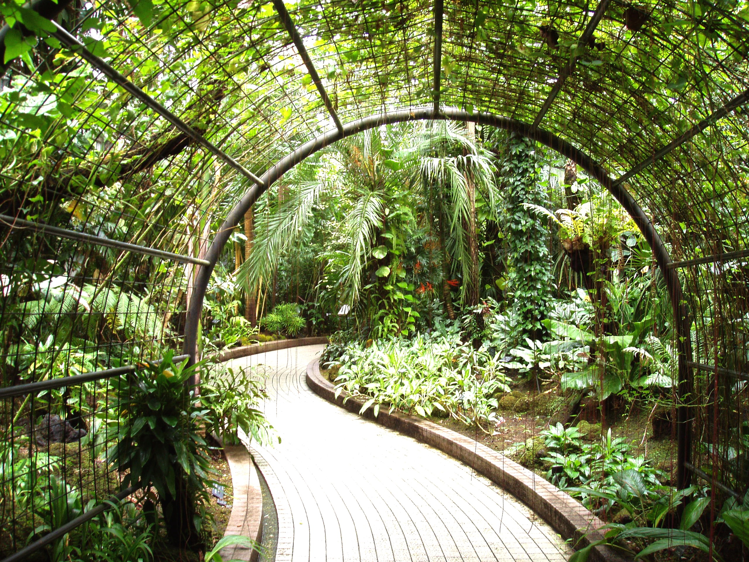 Kyoto Botanical Garden, Kyoto, Japan - interior view of conservatory.